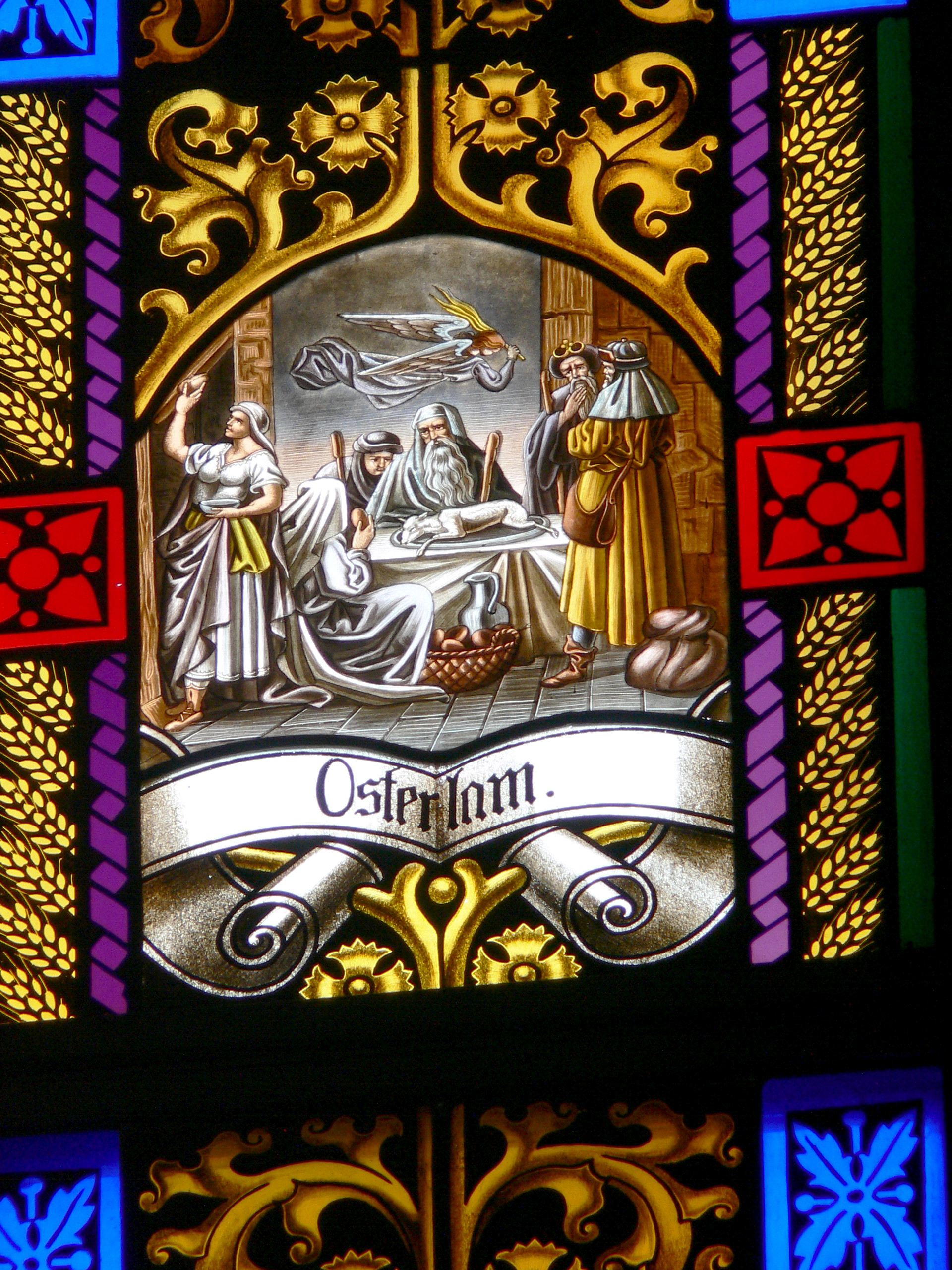 Pötting - parish church of the Holy Cross: Stained glass window showing the Passover lamb.